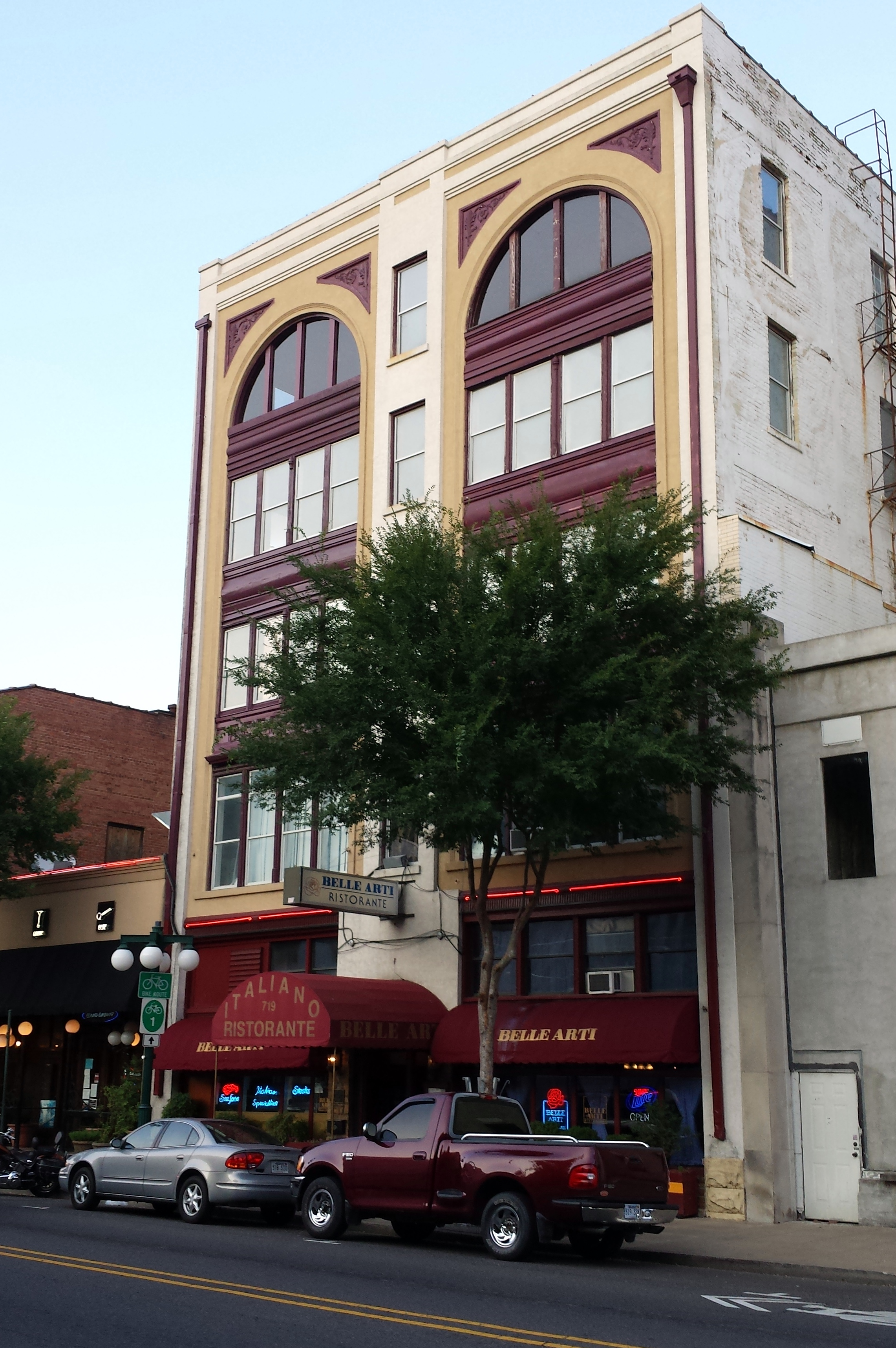 Historic hotel in downtown Hot Springs, AR